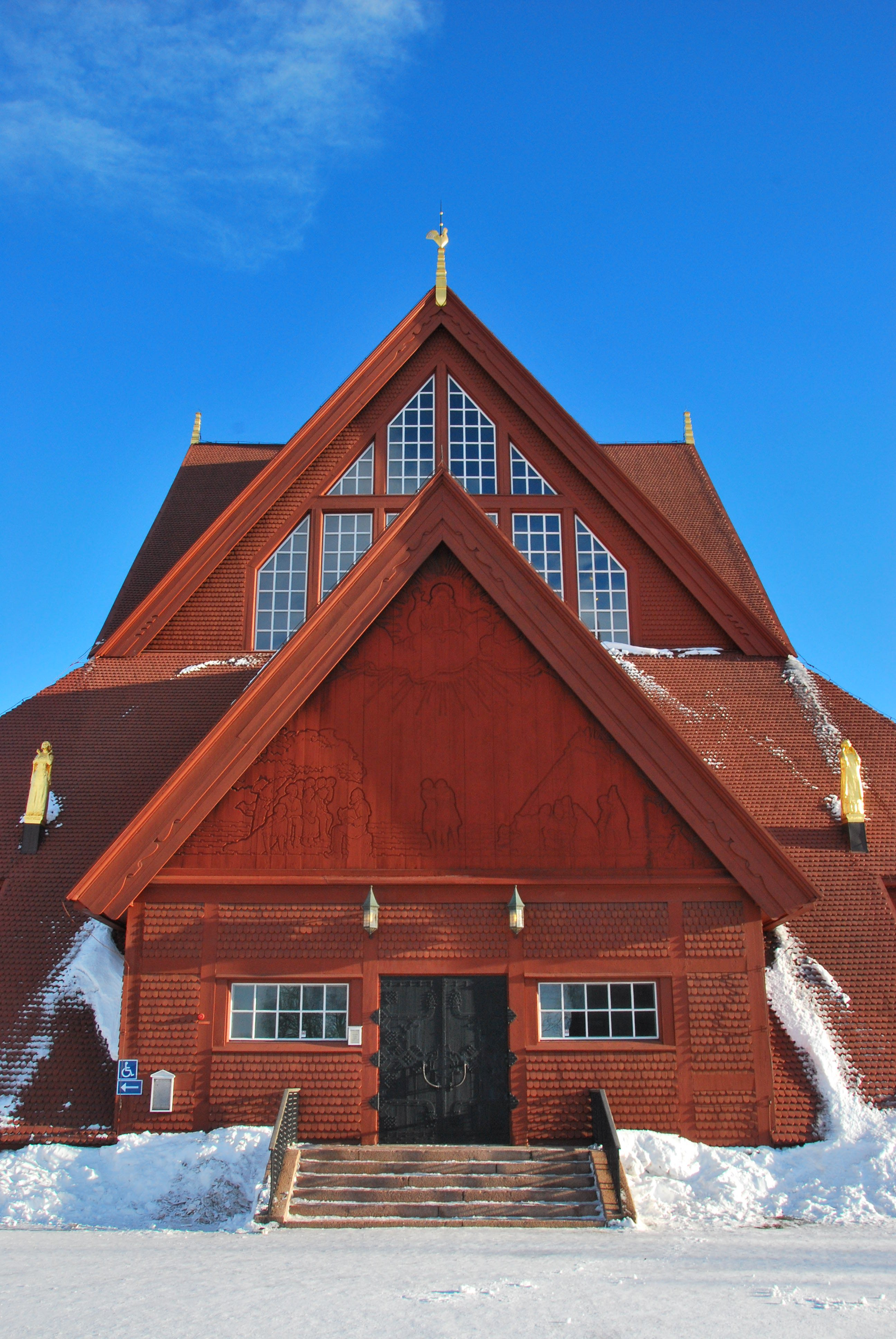 Kiruna kyrka in winter.